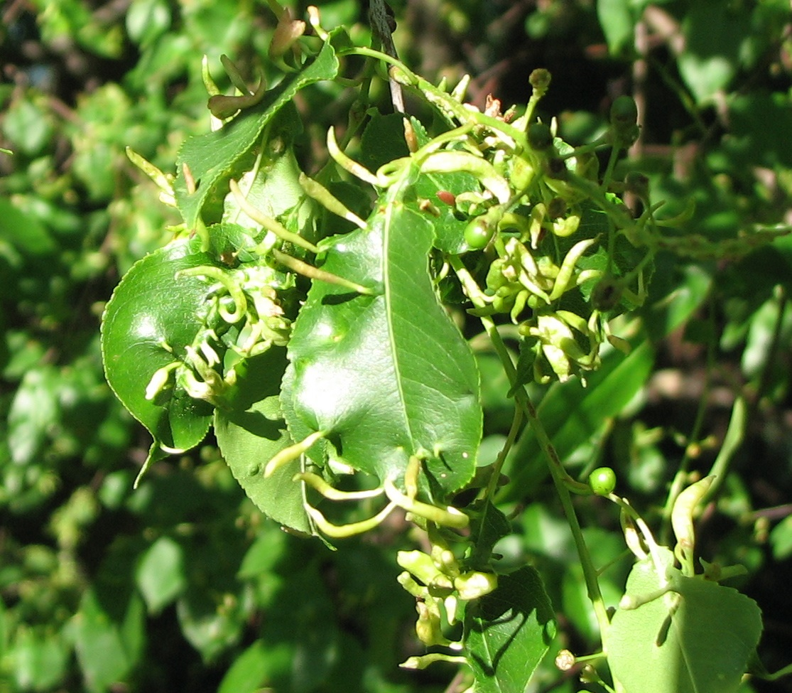 Galls made by Eriophyes cerasicrumena on cherry tree. Dickey Ridge Visitor Center, Shenandoah Nat. Park, Warren County, Virginia, USA.